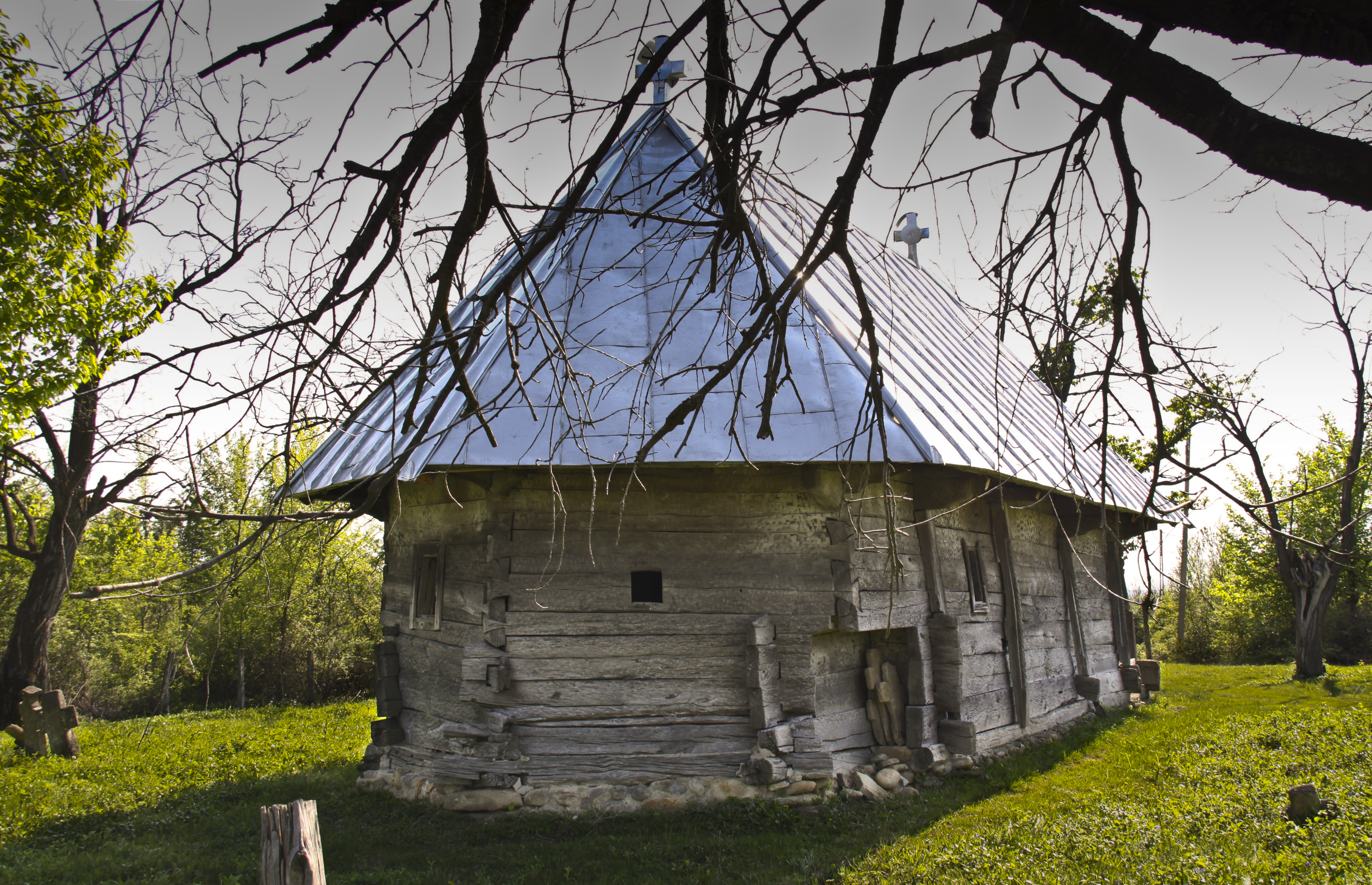 Scoarţa-Cârţineşti, Gorj county, Romania: the wooden church.